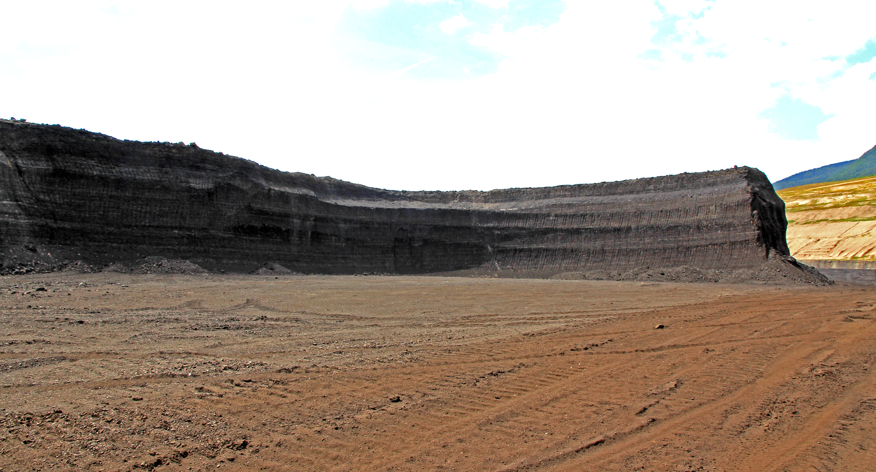 The layer of lignite prepared for mining in central part the Lom ČSA, coal mine near town Most, Czech Republic